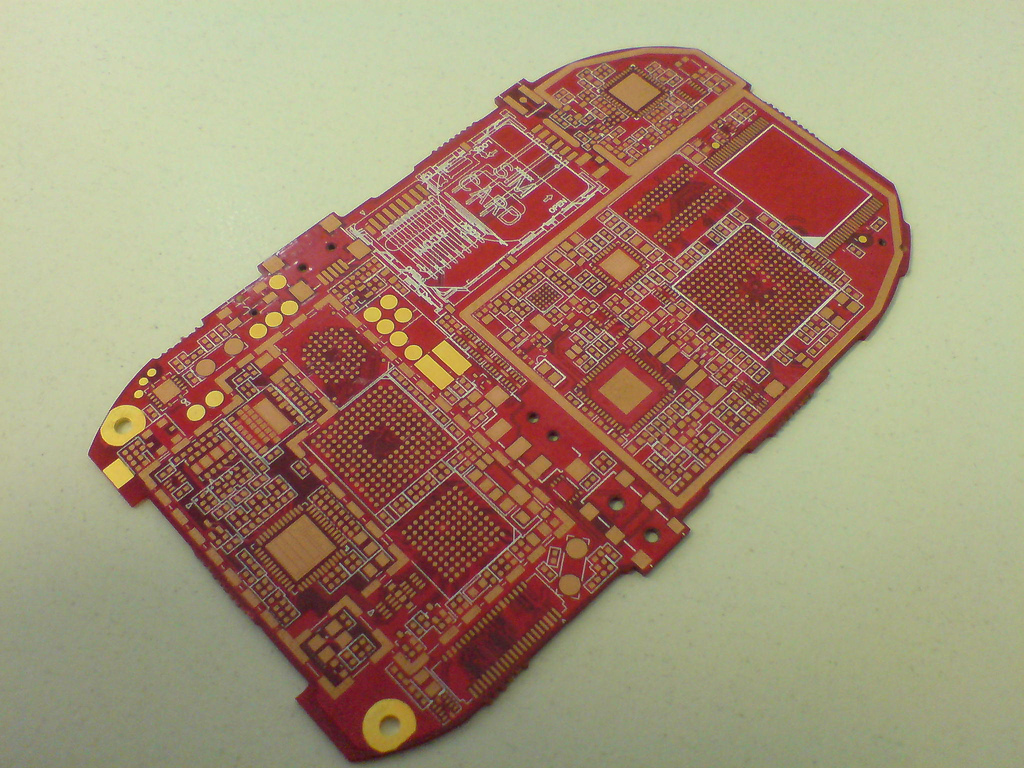 OpenMoko Mainboard, retrieved as a little giveaway from the OpenMoko crew at their product introduction (non)workshop during the Chaos Communication Camp 2007.